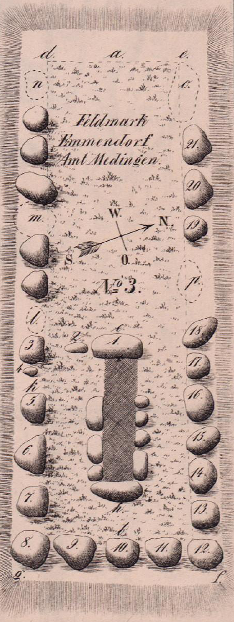 Megalithic tomb near Emmendorf, Sprockhoff-No. 772